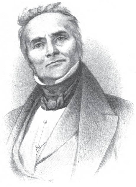 Portrait of Jean Charles Athanase Peltier (1785—1845), French physicist